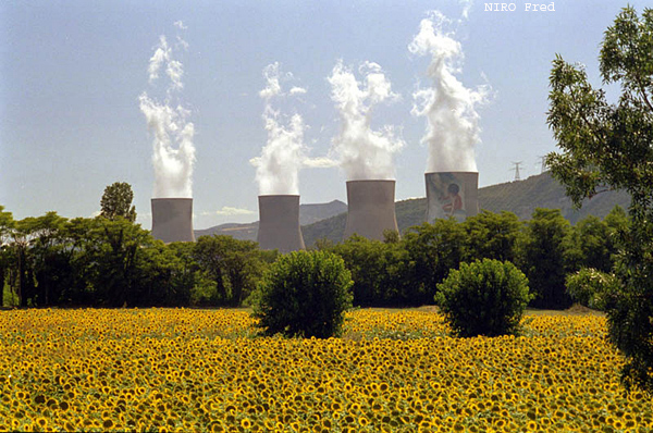 Nuclear devices Cruas France